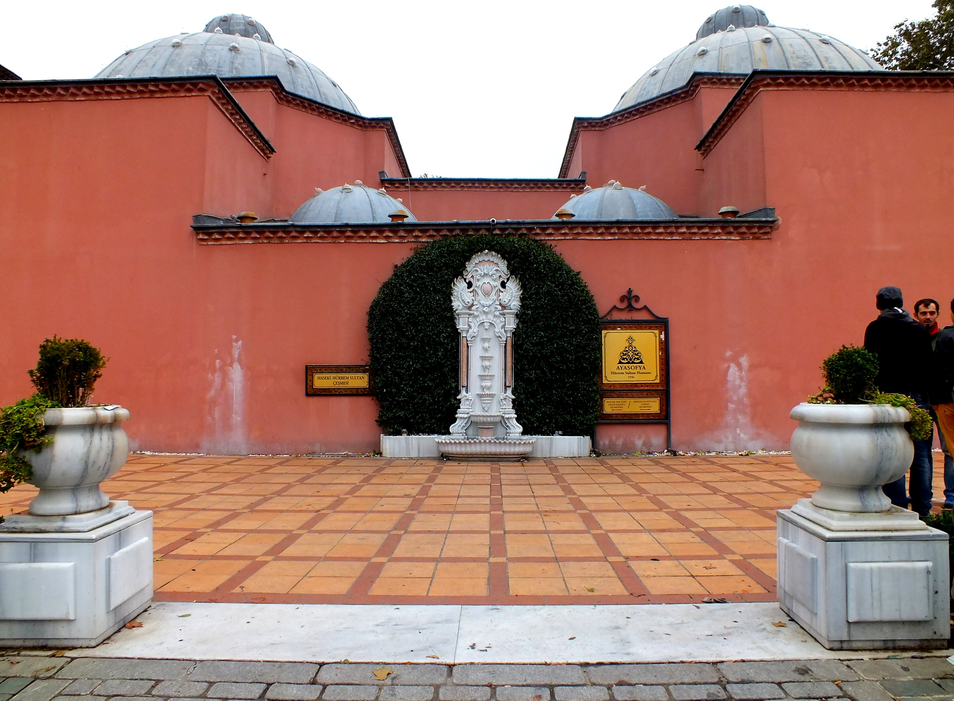 Ayasofya Hürrem Sultan Hamami